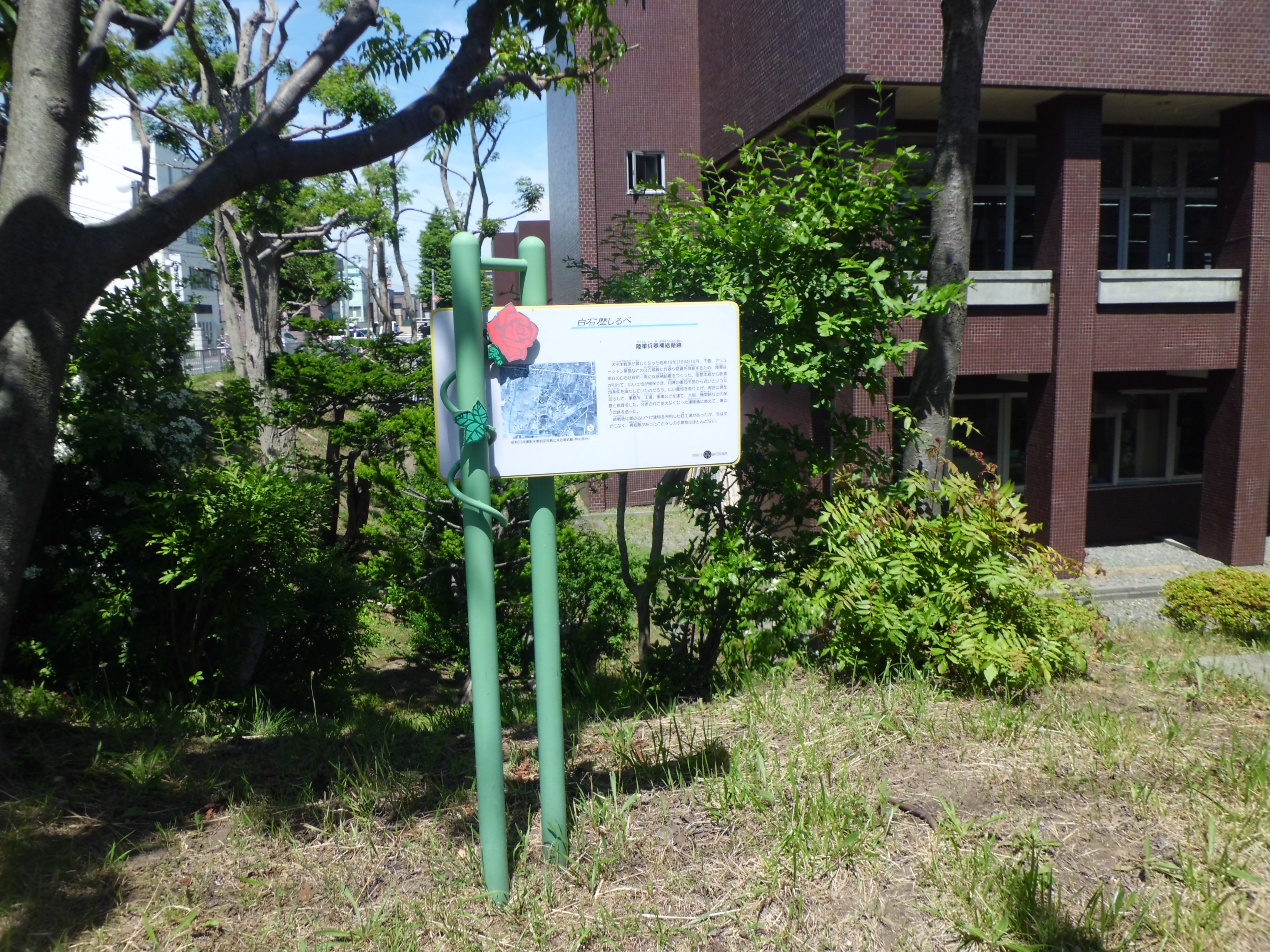 Remains of Hokkaido Army Wepons Depot